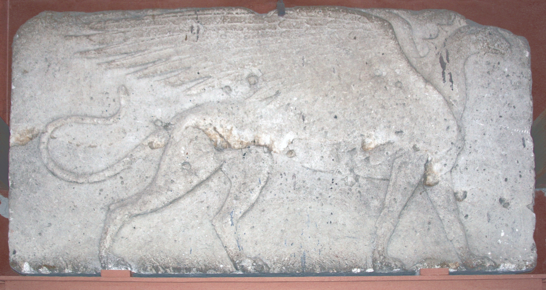 Ancient tomb stele of the griffin, Phanagoria, 3-4th BC, from the museum in Feodosiya, Crimea